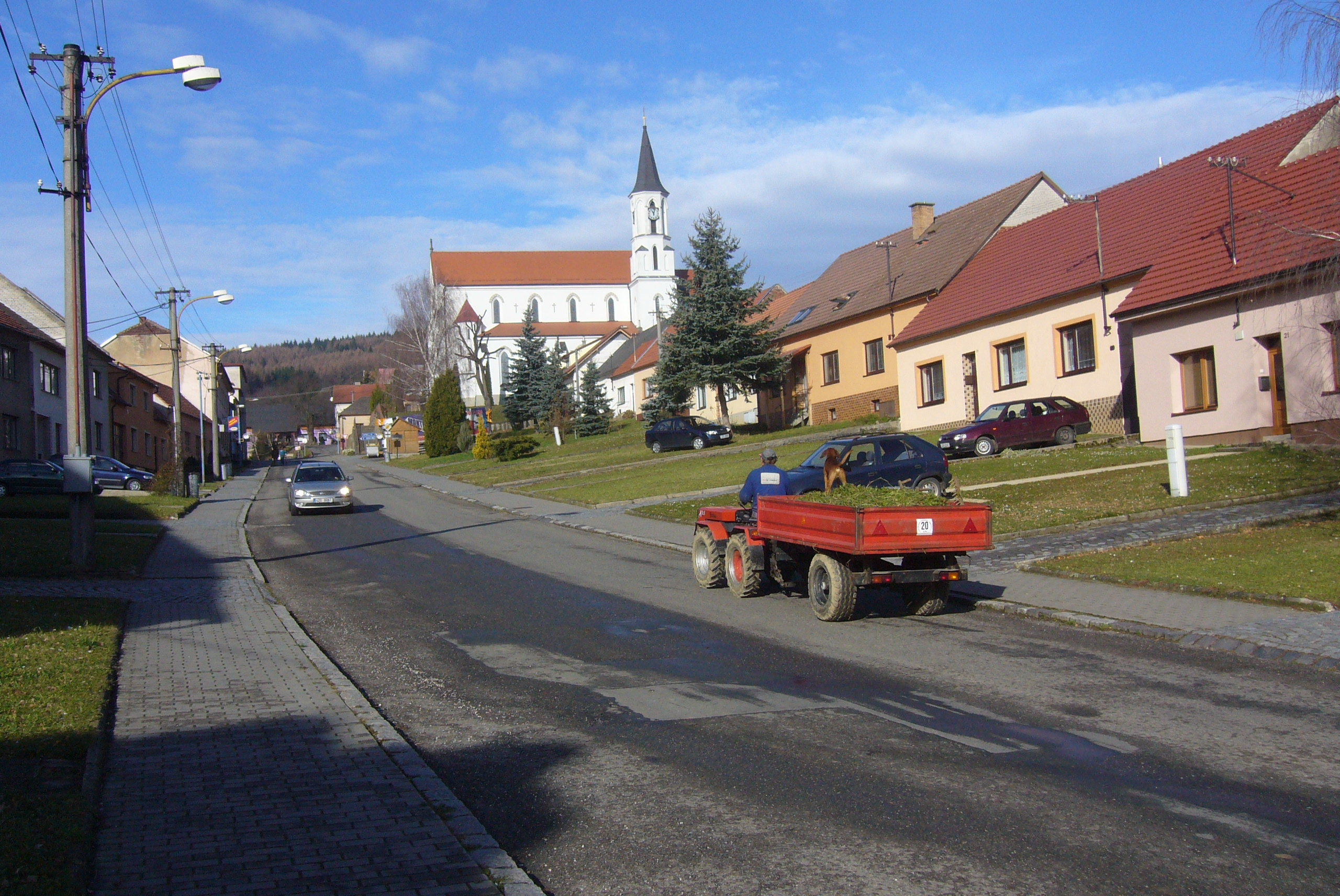 Brezová (Uherské Hradiště District) Czech Republic